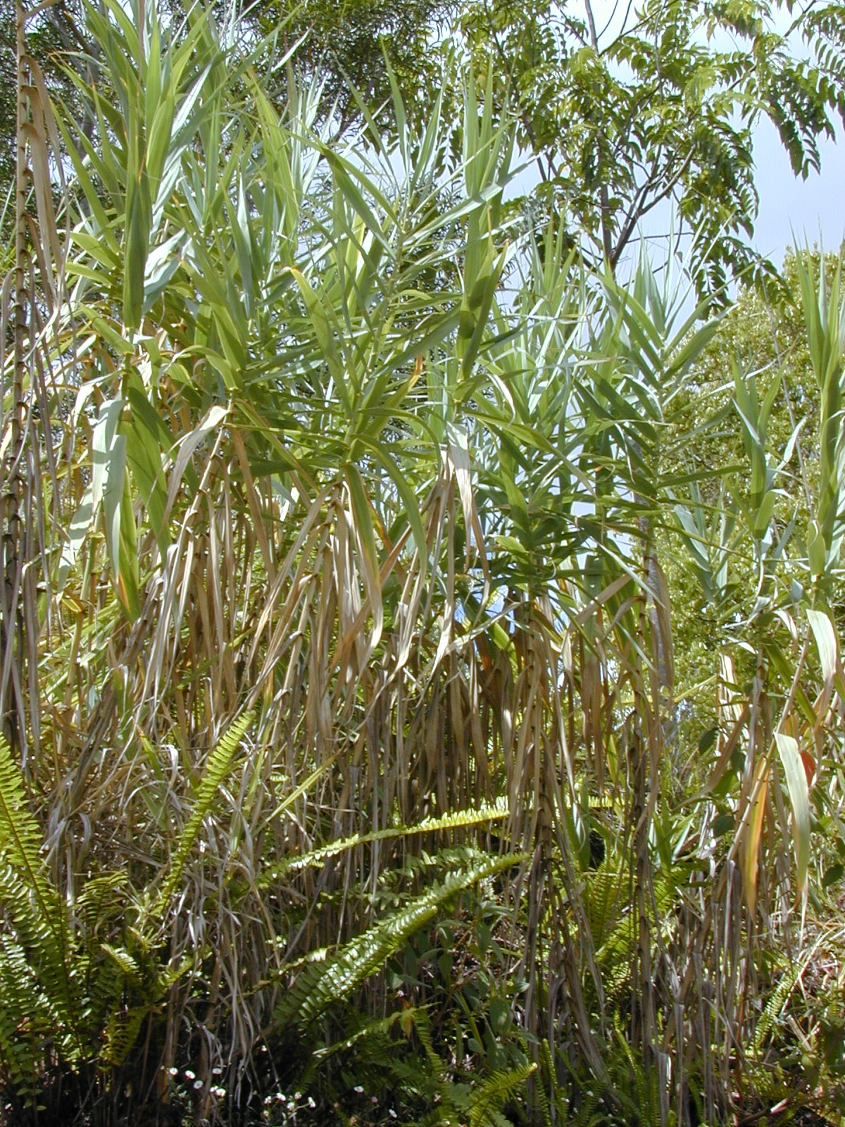 Arundo donax (habit). Location: Maui, Kula